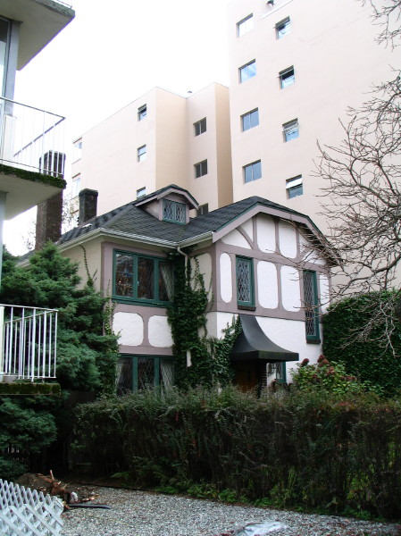 Another old heritage building on Comox Street, Vancouver, BC, Canada